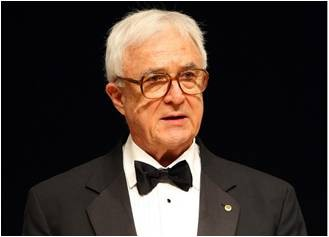 David Kuhl (born in 1929, retired in 2011). Image taken during presentation of the 2009 Japan Prize Award, attended by Emperor Akihito. This prestigious prize was introduced in 1985 to award scientists who contribute to the development of science and technology.